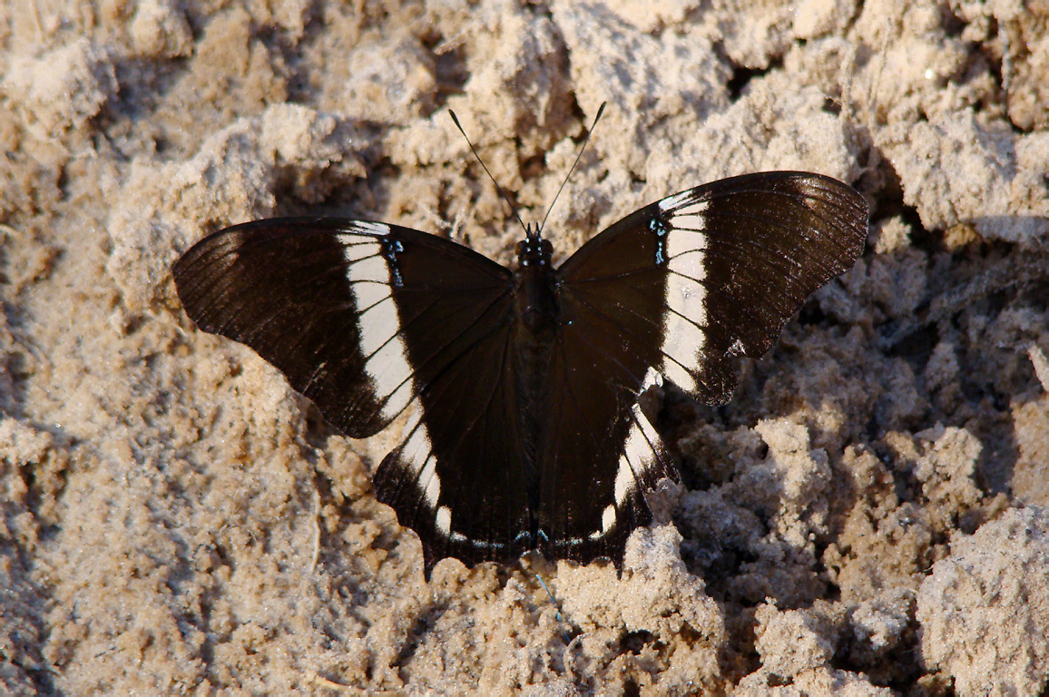 Siproeta epaphus subsp. trayja photographed in Rio Grande do Sul, Brazil, in January 2010.